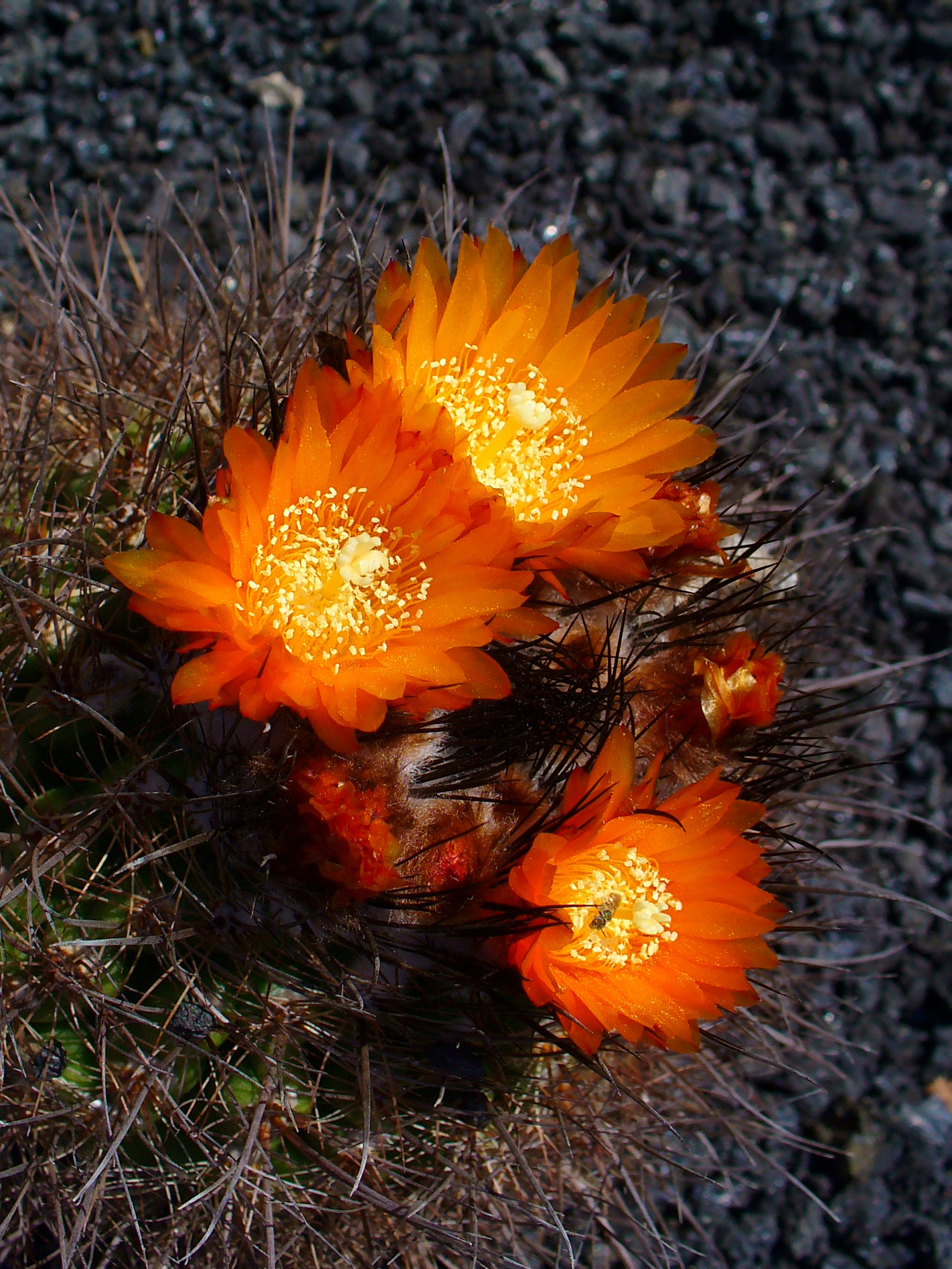 Flowers; Jardin de Cactus, Guatiza, Lanzarote, Canary Islands, Spain.